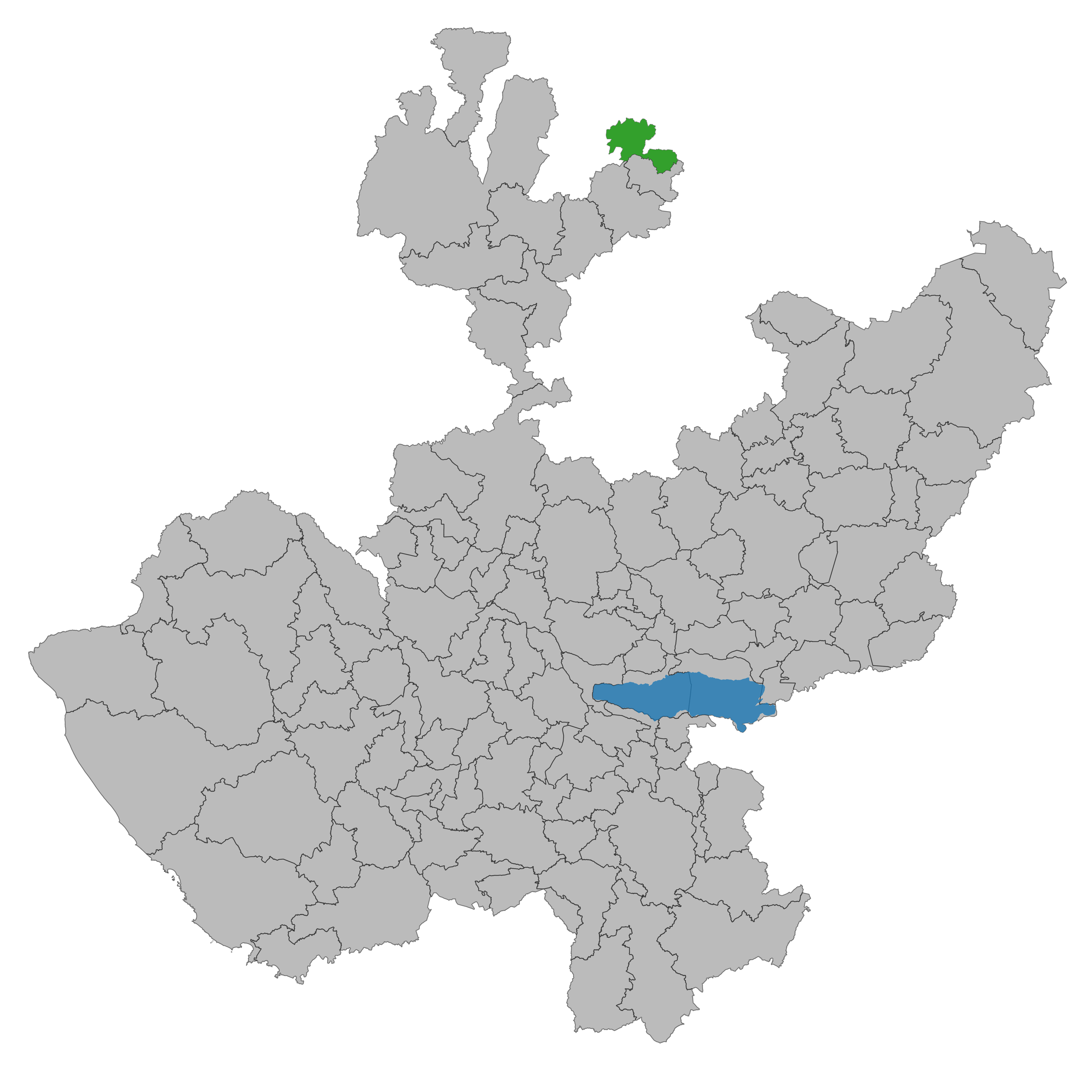 Municipality of Jalisco. Prepared with the software QGIS version 2.8.2 Wien & with information of SCINCE 2010 version 05/2013